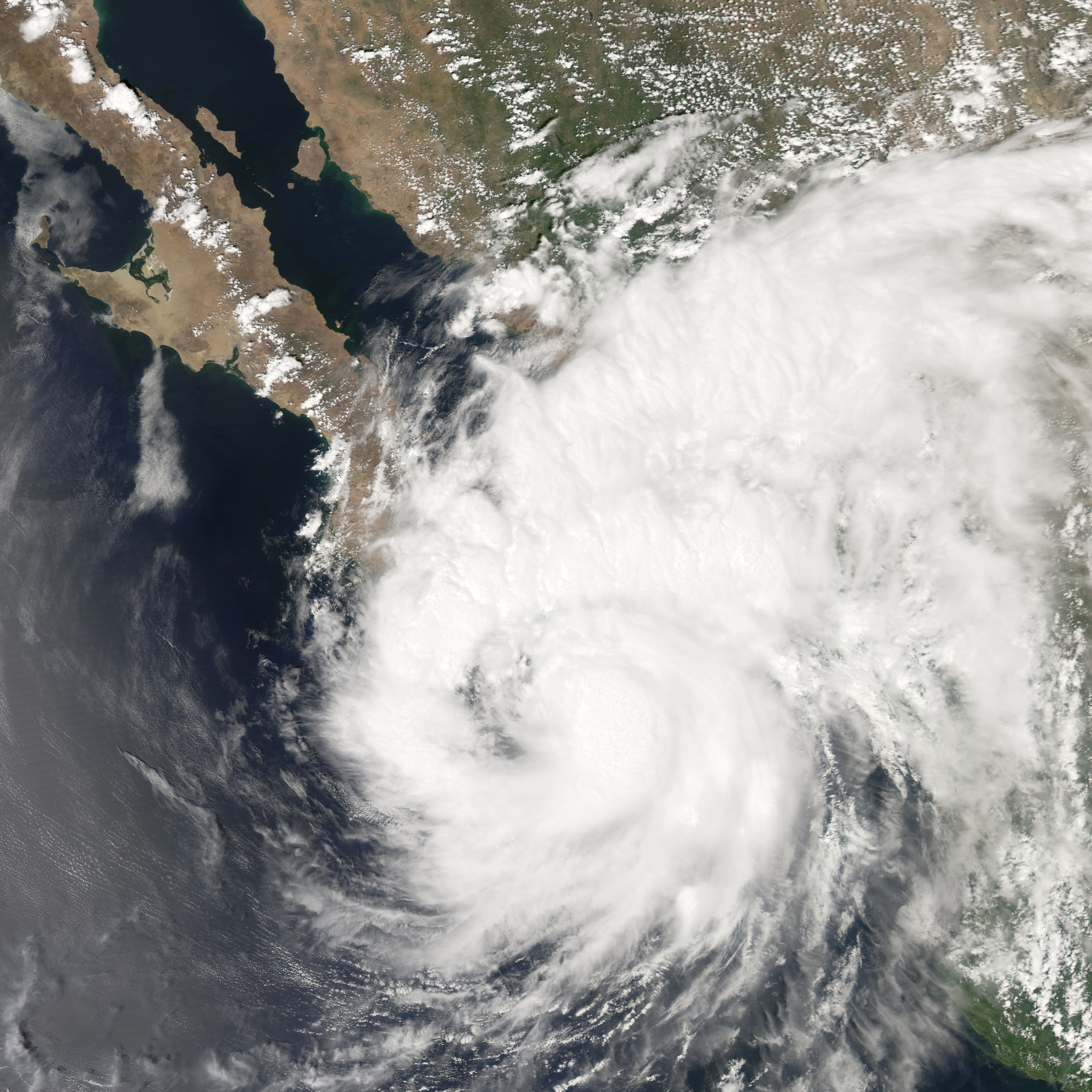 The eastern Pacific hurricane season had been relatively quiet when Hurricane Henriette formed in late August of 2007. Henriette traveled off shore from the Mexican Pacific coast from August 30 to September 4, gradually becoming a Category One hurricane. The storm had just come ashore over Cabo San Lucas, Baja California, when the Moderate Resolution Imaging Spectroradiometer (MODIS) on NASA’s Aqua satellite acquired this photo-like image at 1:55 p.m. local time (20:55 UTC) on September 4, 2007, said the National Hurricane Center Just a few hours before MODIS observed the storm, the National Hurricane Center estimated Henriette’s sustained winds to be over 110 kilometers per hour (75 miles per hour), consistent with their Category One strength prediction. The satellite image shows Henriette to have only a loosely wound spiral arm structure and only traces of a central eye. This is consistent with a low strength hurricane.